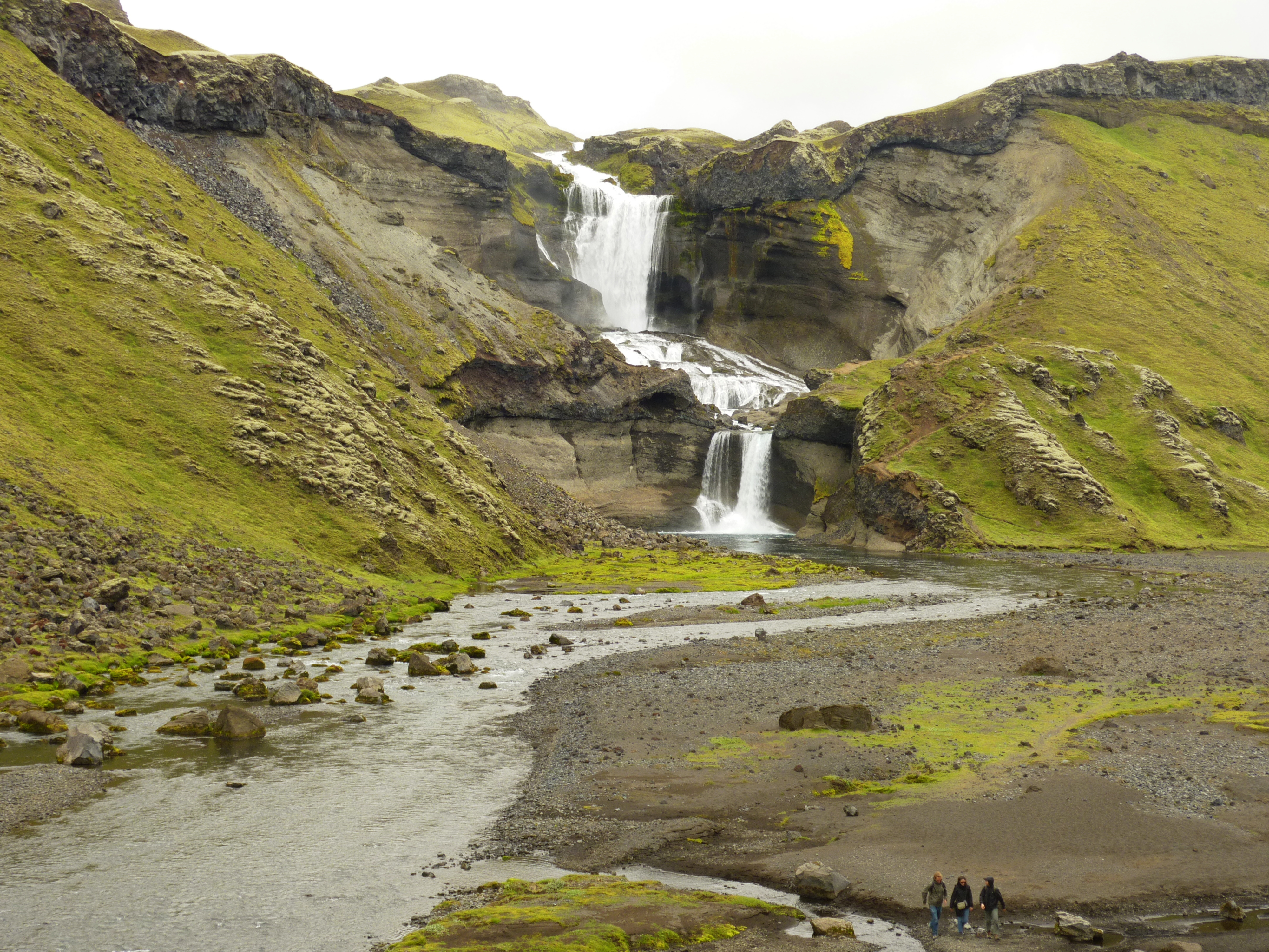 The Ófærufoss in 2013, seen from the path on the southern ridge.